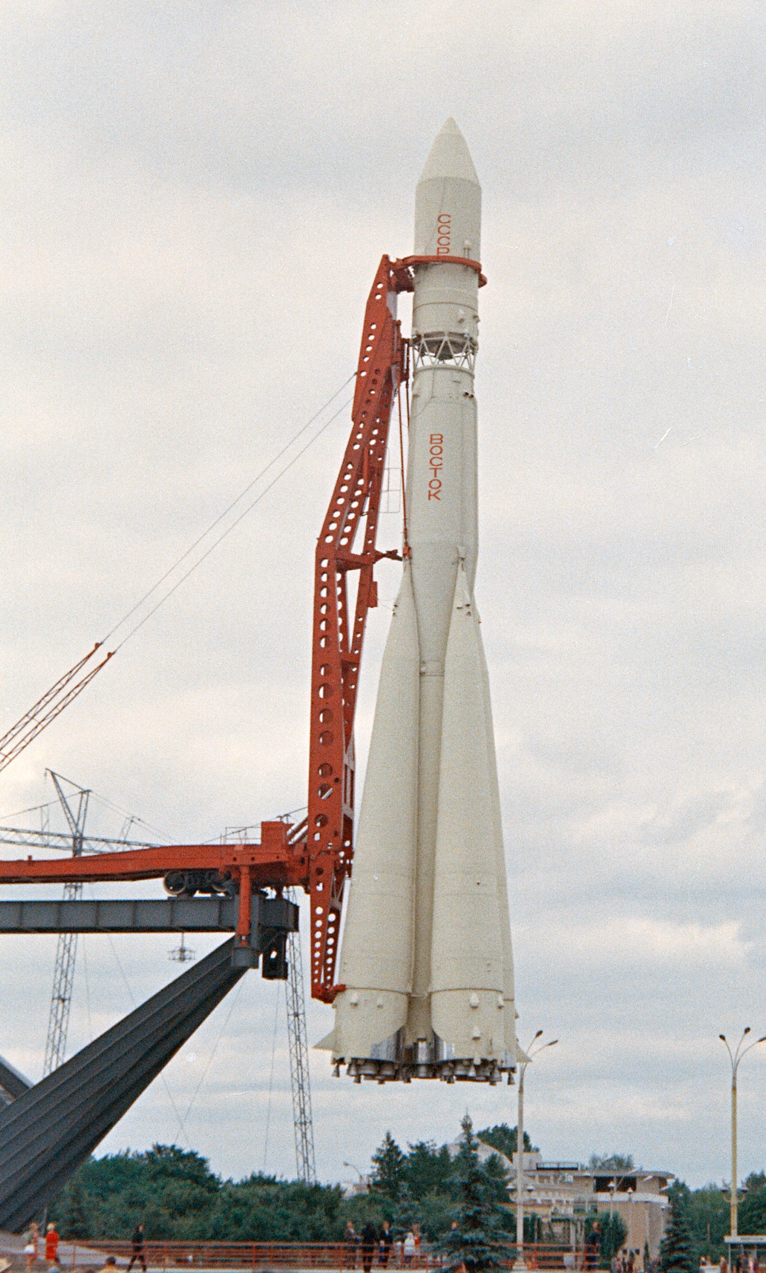 Schau der Wirtschaftserfolge, Moskau - Halle des Kosmos - Wostok 1 Trägerrakete